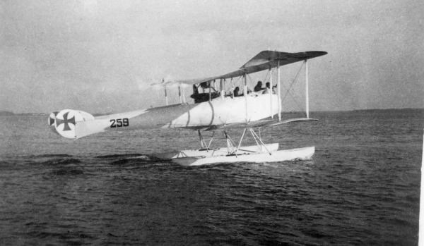 Gotha WD.3